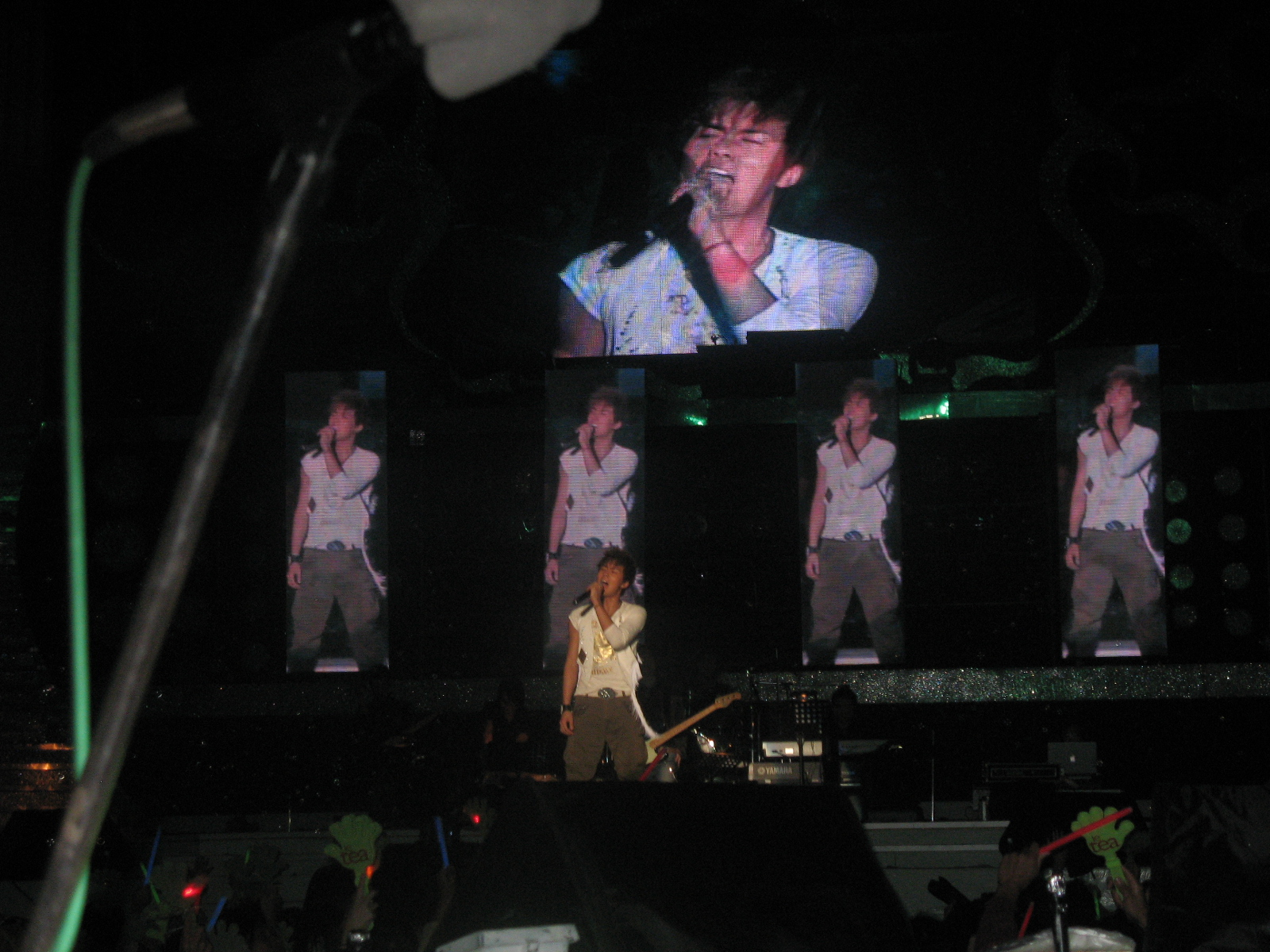 Kenji Wu Bân-lâm-gú: Ngôo Khik-kûn. 吳克羣